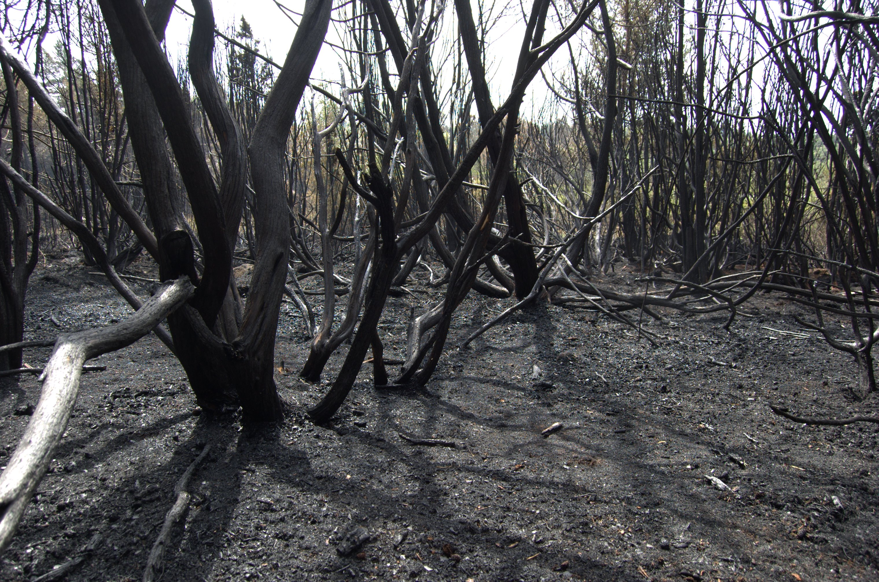 This image shows some of the effects of the june 2006 wildfire in the forrest south west of Sisjön in Gothenburg, Sweden. The fire was put out the same day as this photo was taken and there were still firefighters in the area. Camera: Nikon D50